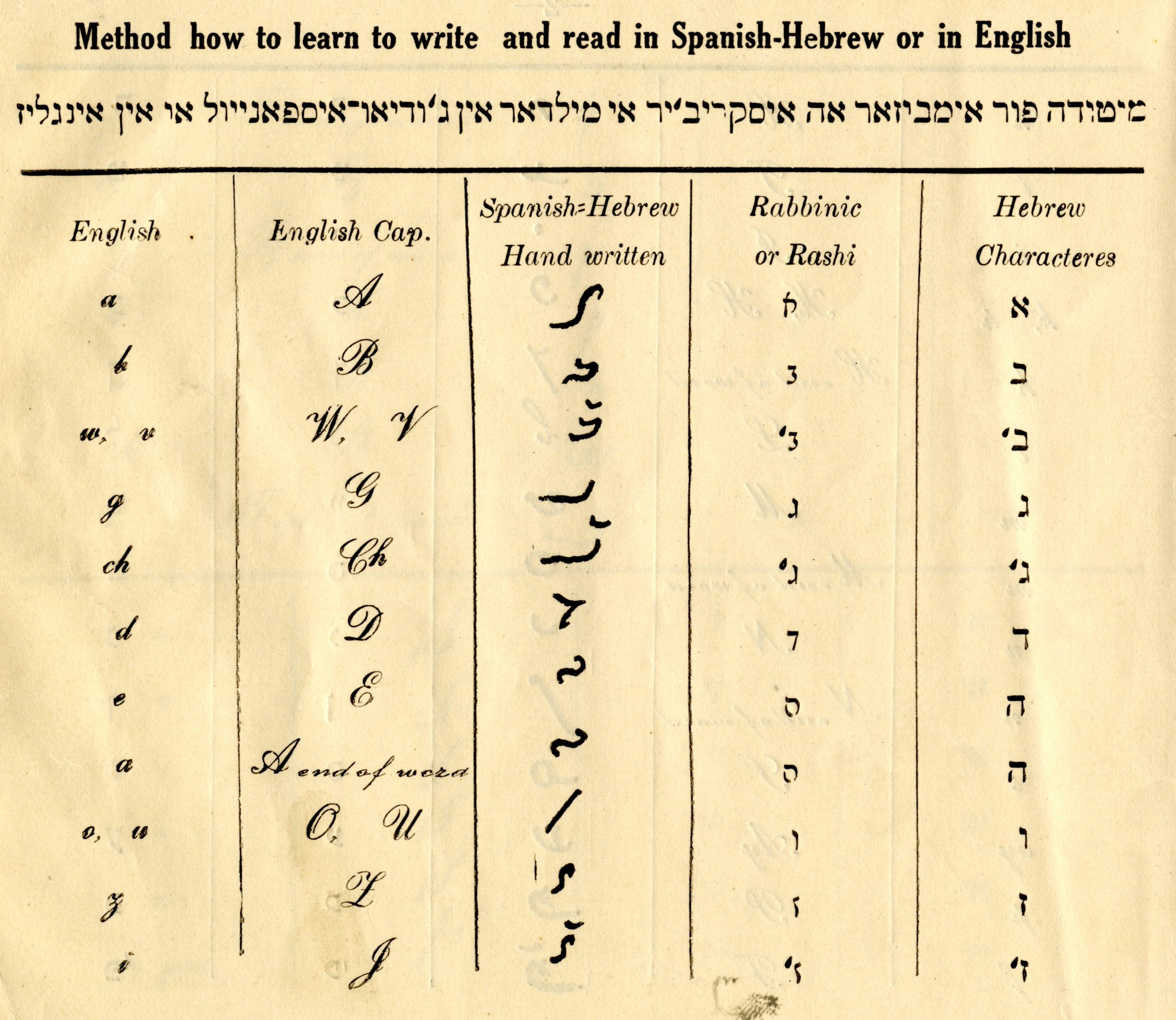 From Livro de Embezar las linguas Ingleza i Yudish Published 1916